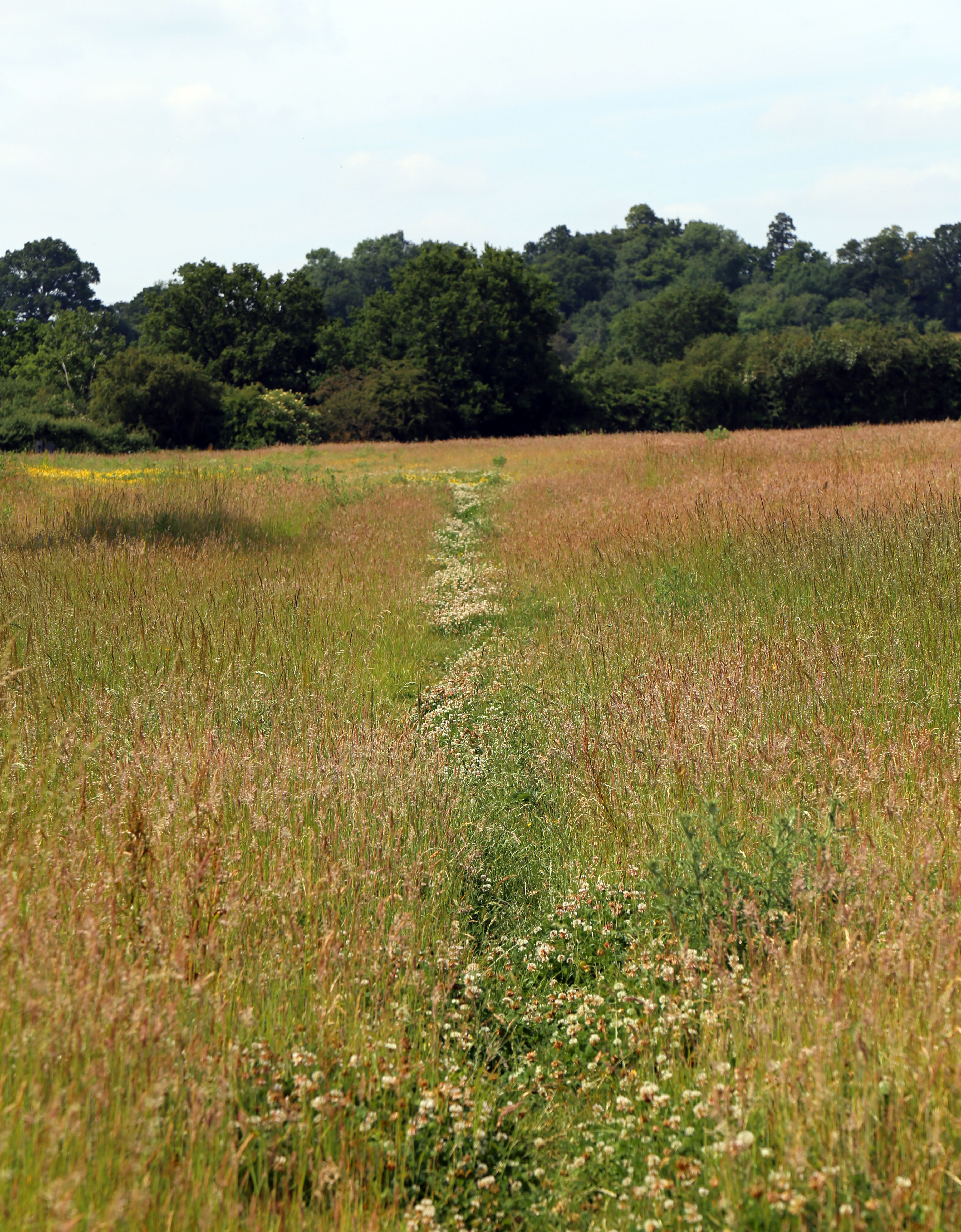 Desire path, defined by white clover, in an overgrown grass part of the Woodland Trust wood at the east of the civil parish of Theydon Bois, Essex, England